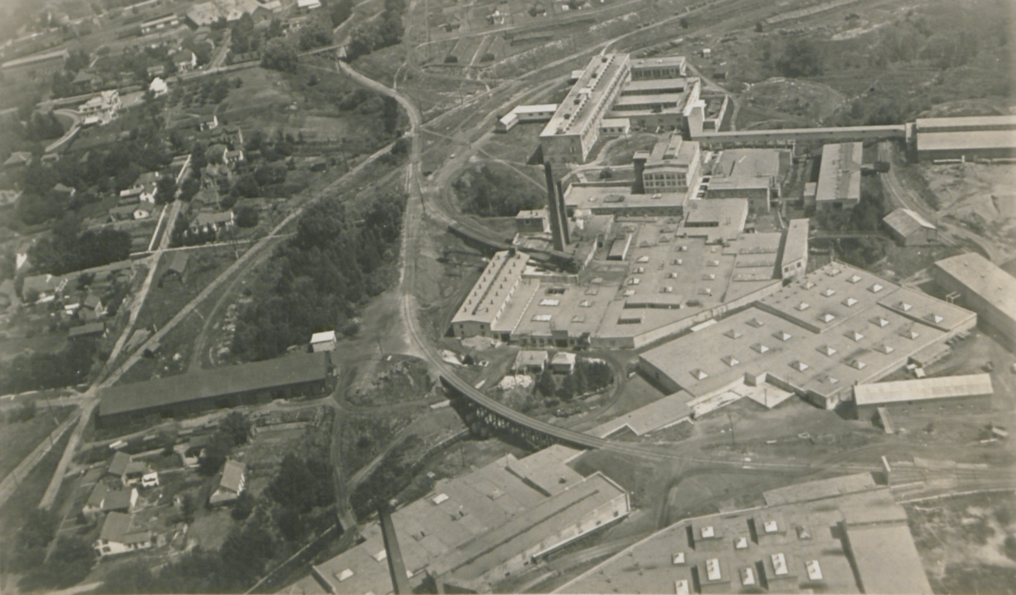 Original caption: “Acton Ontario from the Air.”